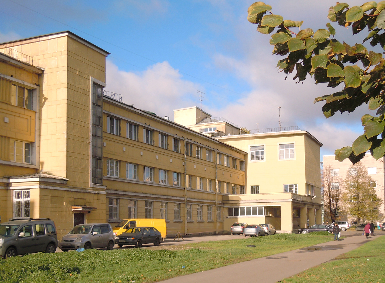 Preventorium of the Kirov district